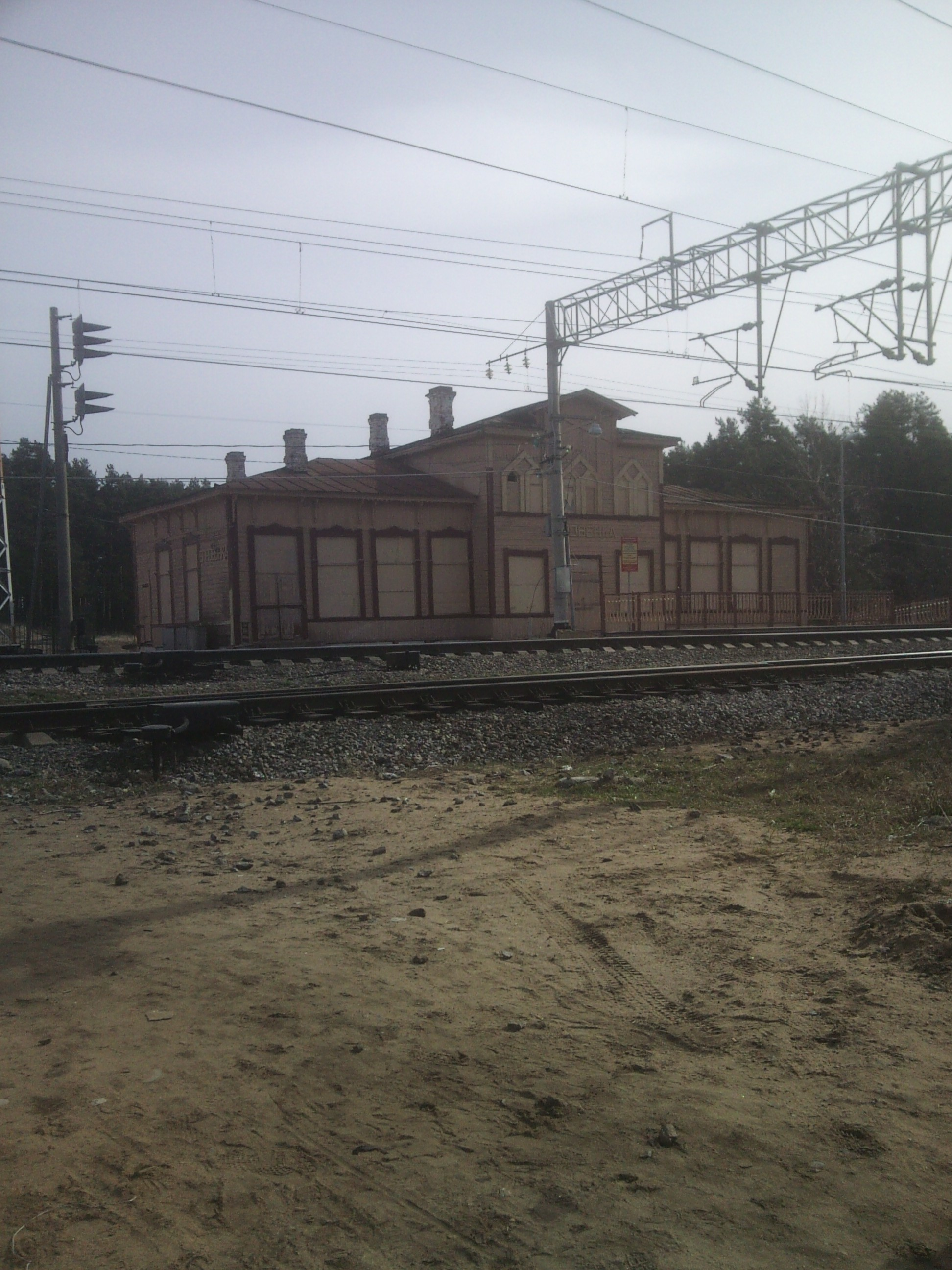 Borovenka - settlement in the Novgorod area. Russia